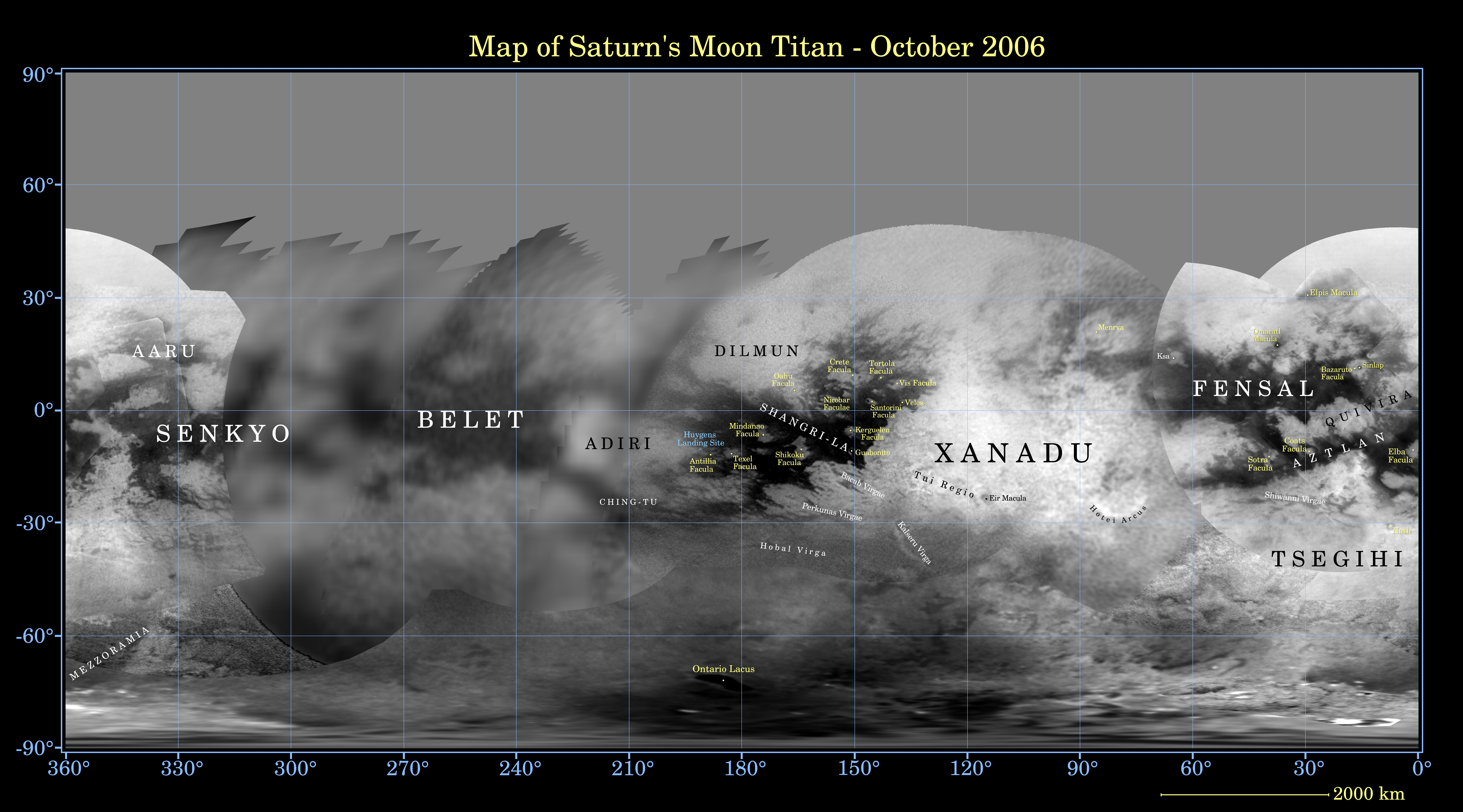 Map of Titan's surface. Mosaic created using data taken by the Cassini spacecraft Imaging Science Subsystem (ISS). The data here consist of images taken using a filter centered at 938 nanometers, allowing researchers to examine albedo (or inherent brightness) variations across the surface of Titan. Due to the scattering of light by Titan's dense atmosphere, no topographic shading is visible in these images.